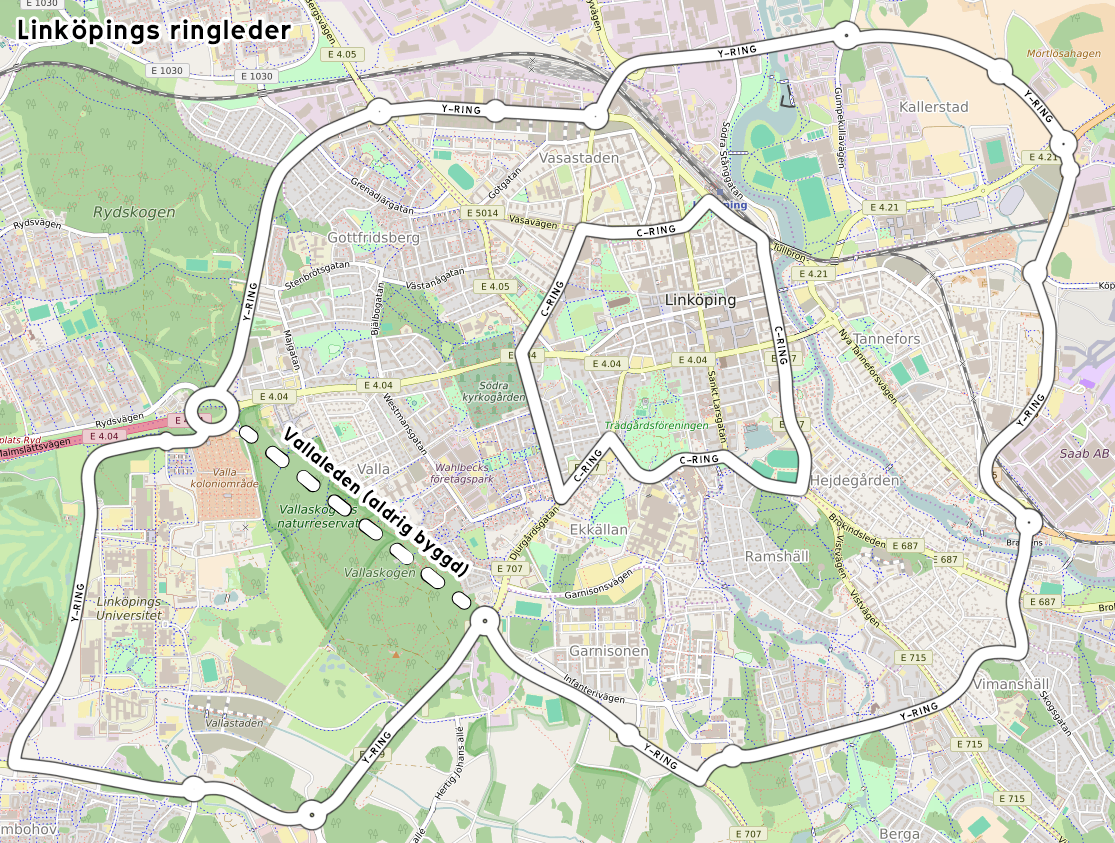 A map of Linköping's ring roads, including the never built Vallaleden stretch.